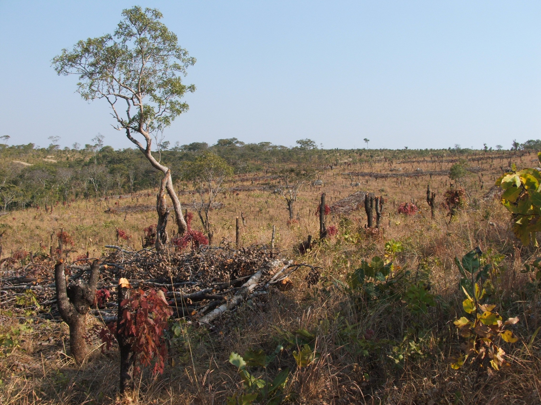 View of "Large Circle" chitemene on far hillside near Masase, approximately 120km east of Serenje Boma, Serenje District, Central Province, Zambia. Piles in foreground will be burned in October and ash mounds will be planted with finger millet.